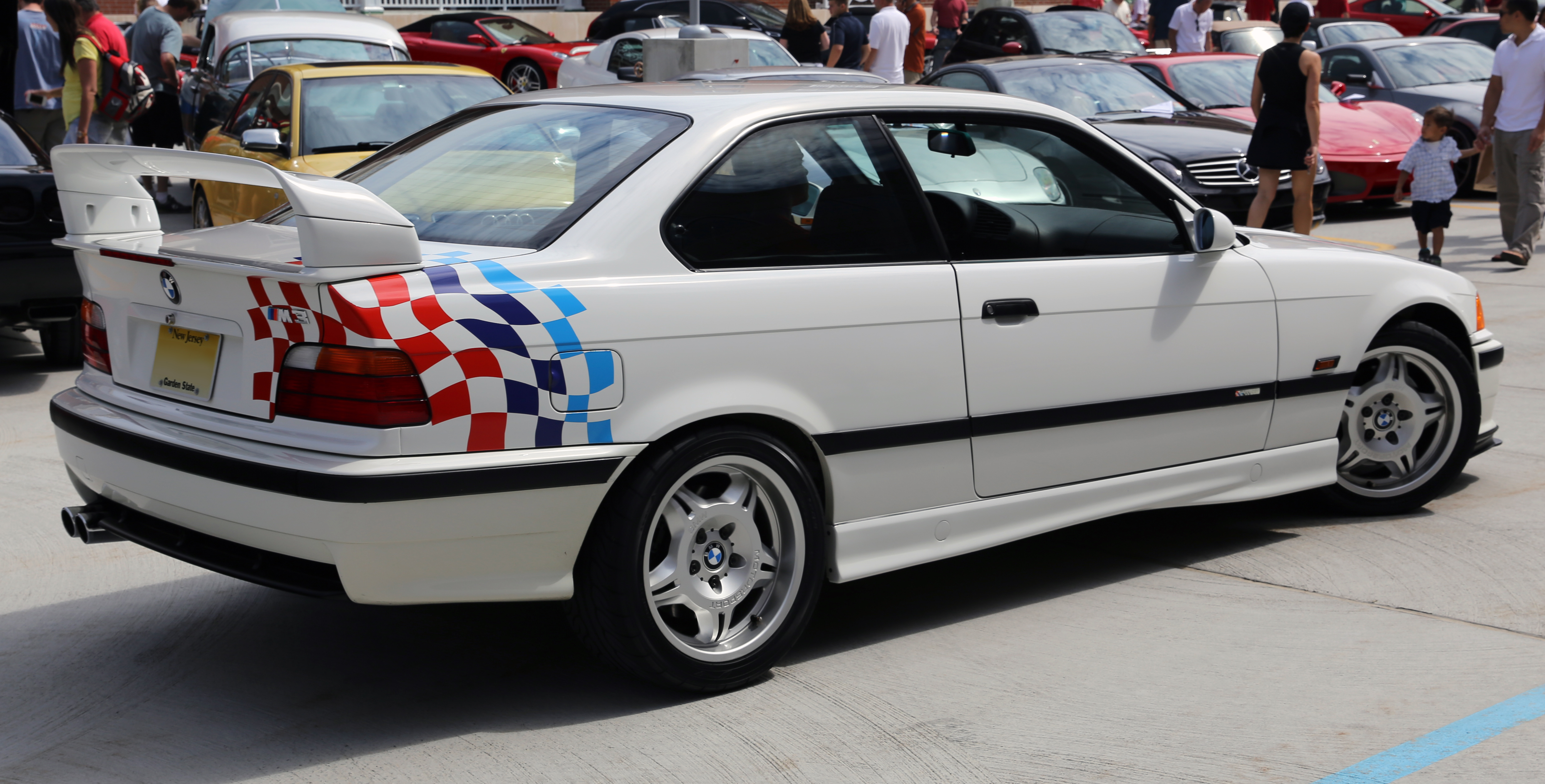 1995 BMW M3 Lightweight. This model was only sold in the US, and only in the 1995 model year. The rear wing inserts are removable IIRC.